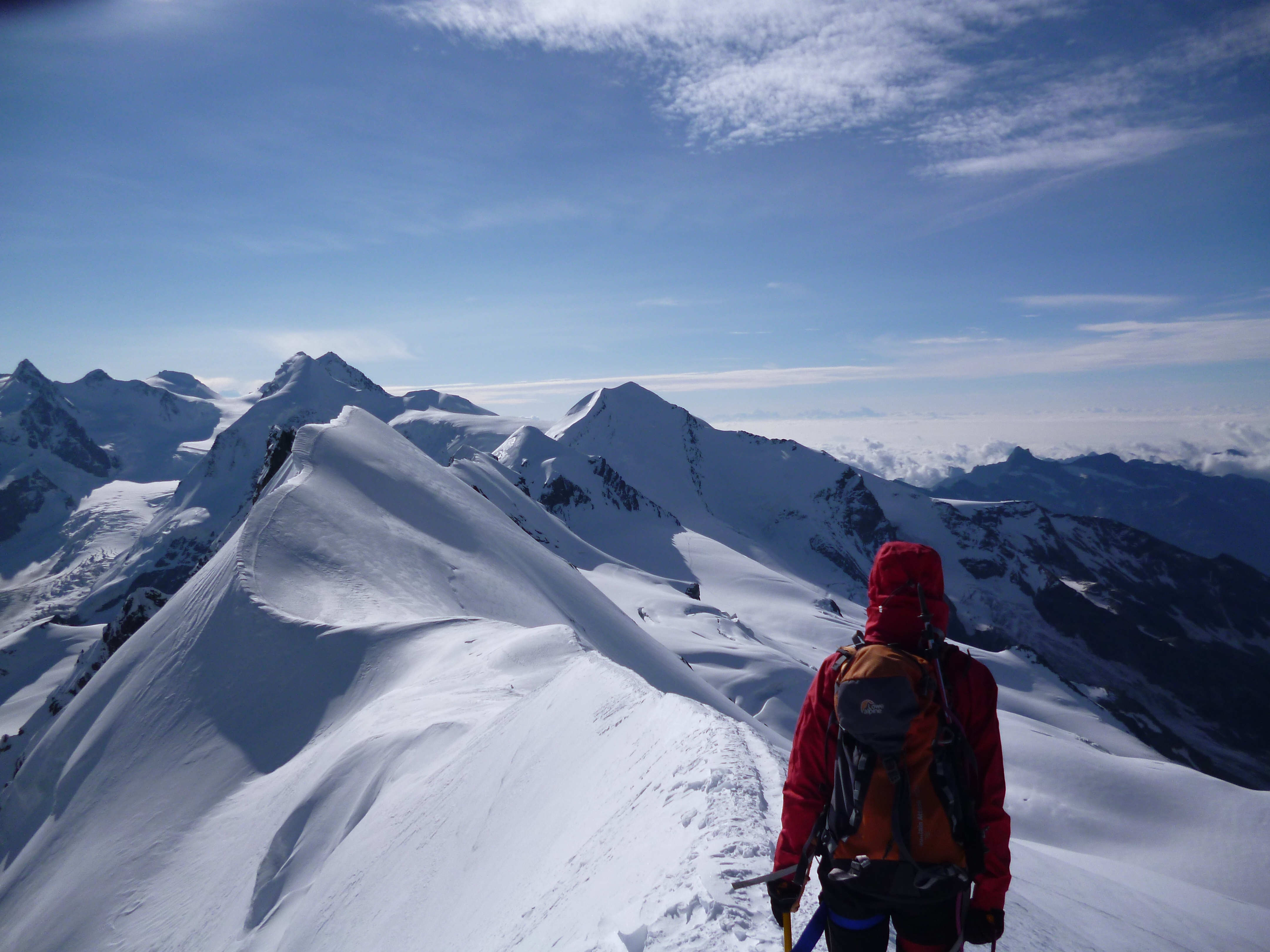 Ridge from west summit to central summit